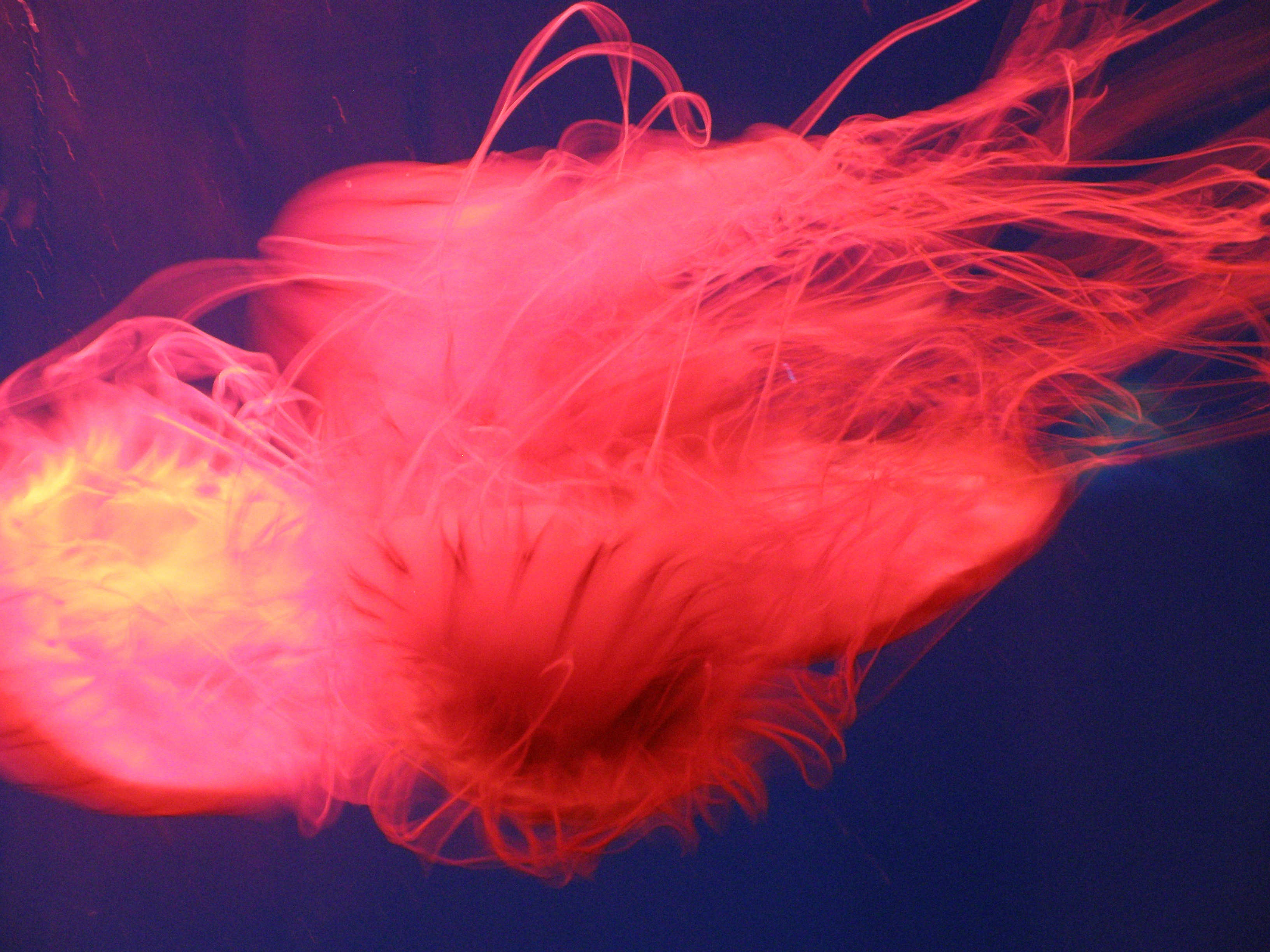 fluorescent jellyfish in aqarium in Mystic, CT